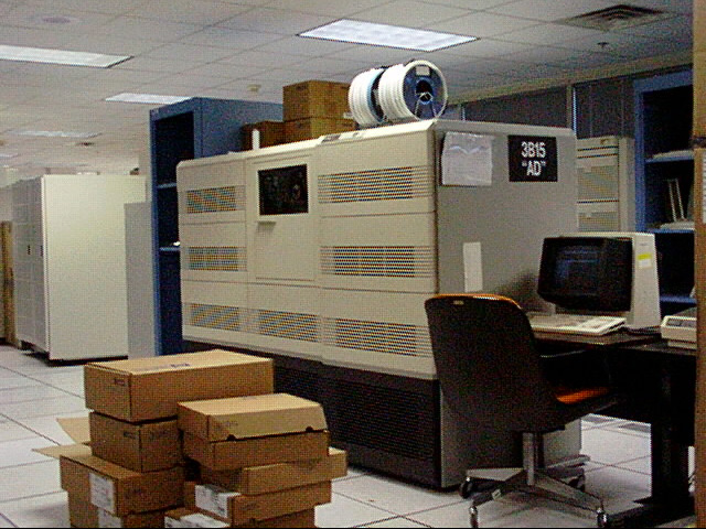 A 3B15 computer, located in a data center in Somerset, New Jersey. Taken in or around 1997.